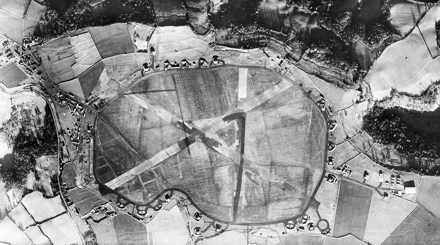 Aerial photograph of Charmy Down airfield looking north, the control tower and technical site is on the left, 4 December 1943. Photograph taken by 7th Photographic Reconnaissance Group, sortie number US/7PH/GP/LOC94. English Heritage (USAAF Photography).